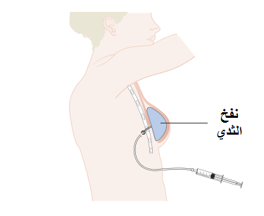 Diagram of an inflatable breast implant